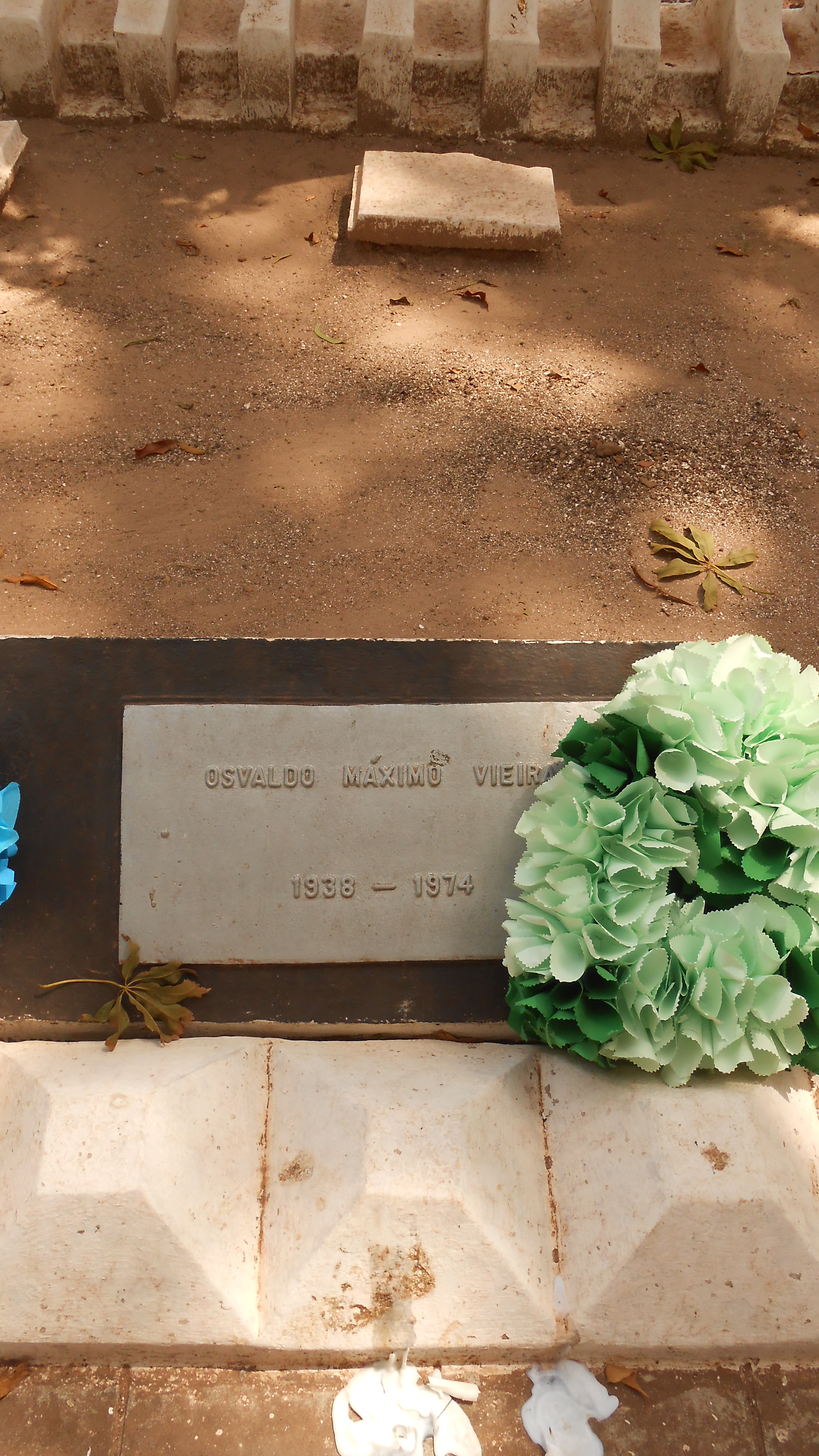 The grave of Osvaldo Vieira at the national heroes memorial Heróis da Pátria next to the Amílcar Cabral mausoleum inside the Fortaleza de São José de Amura fortress in the centre of Bissau city.